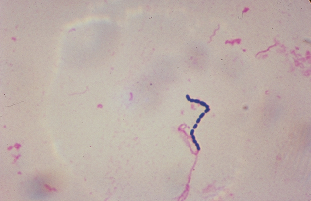 Close up of Streptococcus.